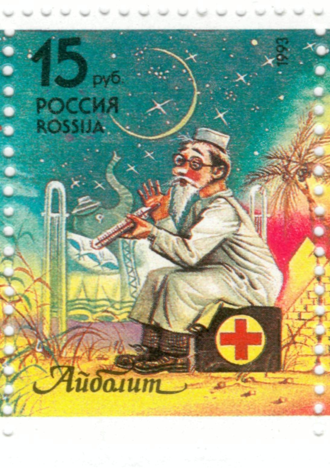 Postage stamp, Aibolit. From a strip of 5 postage stamps, Tales. Russia. 1993.